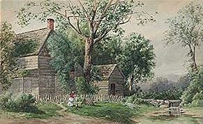 Watercolor on Paper done in New England, held in the Private Collection of South Carolina.